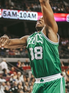 Detroit Pistons vs. Boston Celtics 1/20/13